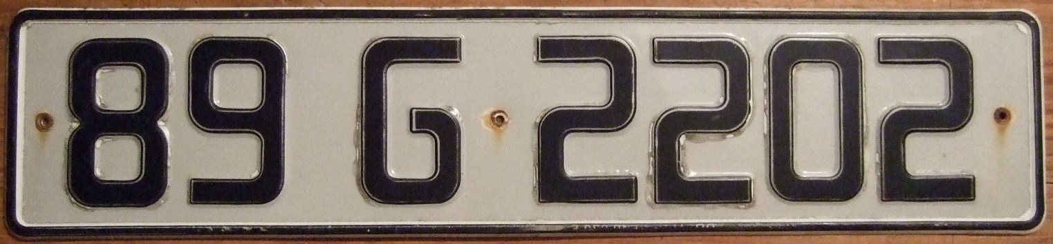 Irish license plate from Galway County with the 1987 series numbering system. This plate is embossed and reflectorized using large fonts. "89" denotes year of first registration, "G" denotes county code of Galway and the following numbers the registration number for that year.